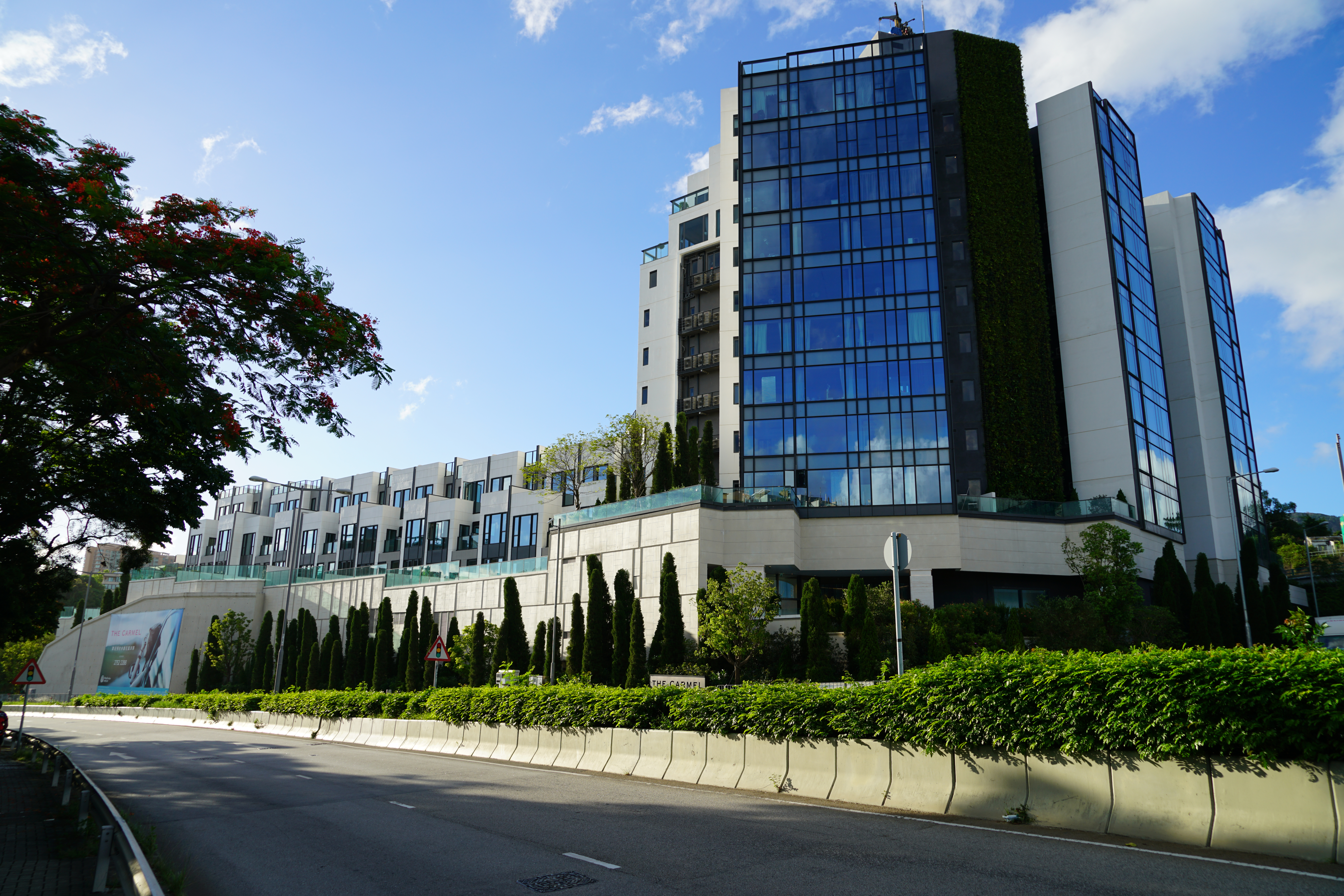 The Carmel, Hong Kong.